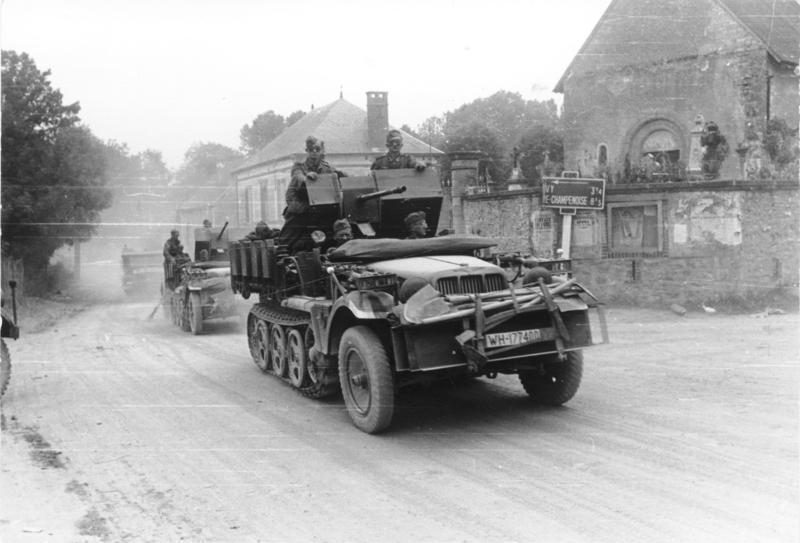 German SdKfz 10/4 SPAAG is passing trough a french village in May 1940. The sign seen on the roadside possibly states "Fère-Champenoise" and "Euvy". Leading to the conclusion that the village, seen on the photograph, may be "Gourgançon" Kommentar: Ort - vermutlich Gourgançon, südlich von Euvy und Fère-Champenoise, was zu den Angaben auf dem Straßenschild passt, auch die Straßenkreuzung passt.